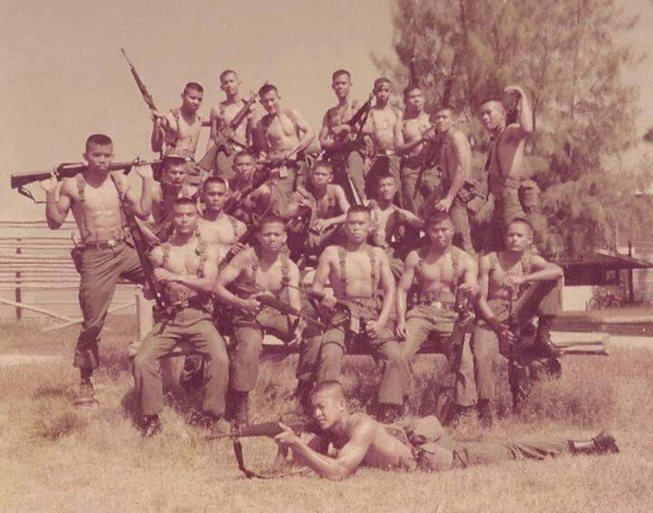 Police officers who scarified themselves to participate in "Anti Hijacker" unit.